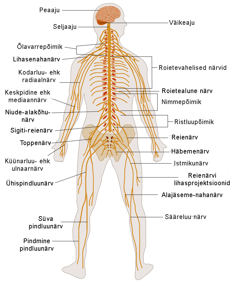 Structure of the human nervous system. Estonian terminology from "Ladina-Eesti, Eesti-Ladina meditsiinisõnastik" Georg Loogna